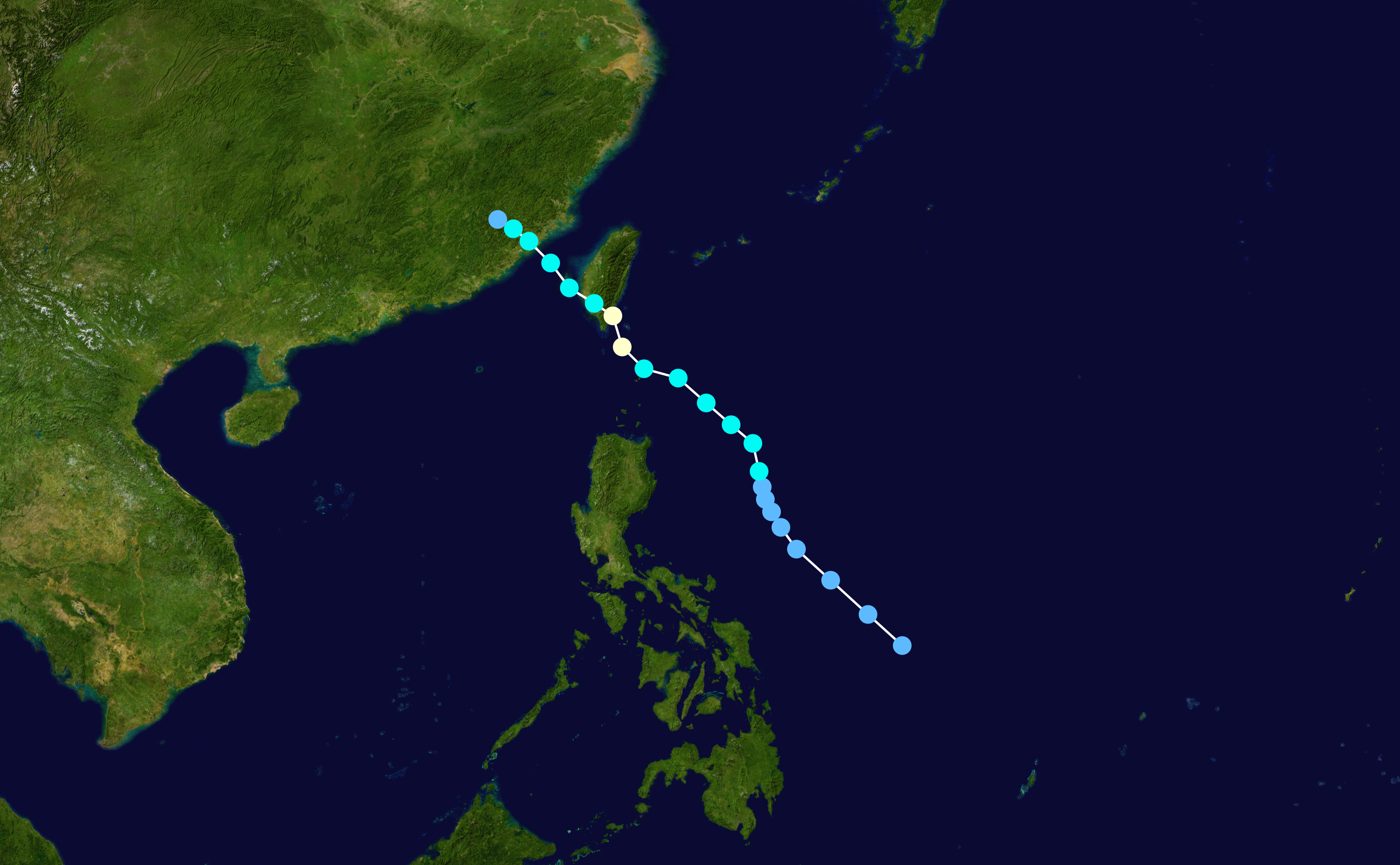 Typhoon Morakat 2003 track. Uses the color scheme from the Saffir-Simpson Hurricane Scale.